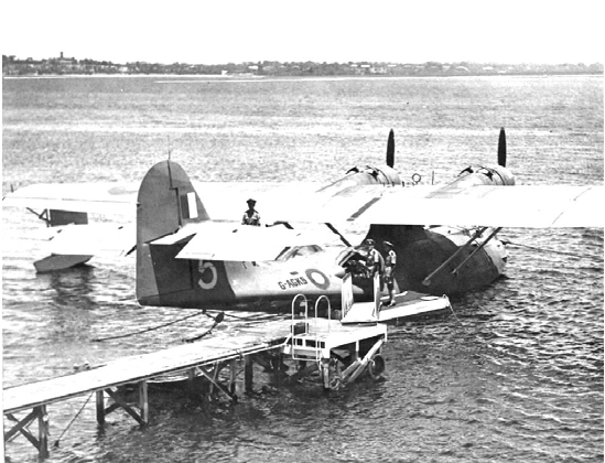 Catalina G-AGKS of the The Double Sunrise service operated by QANTAS for the Royal Australian Airforce during WWII at the Nedlands base